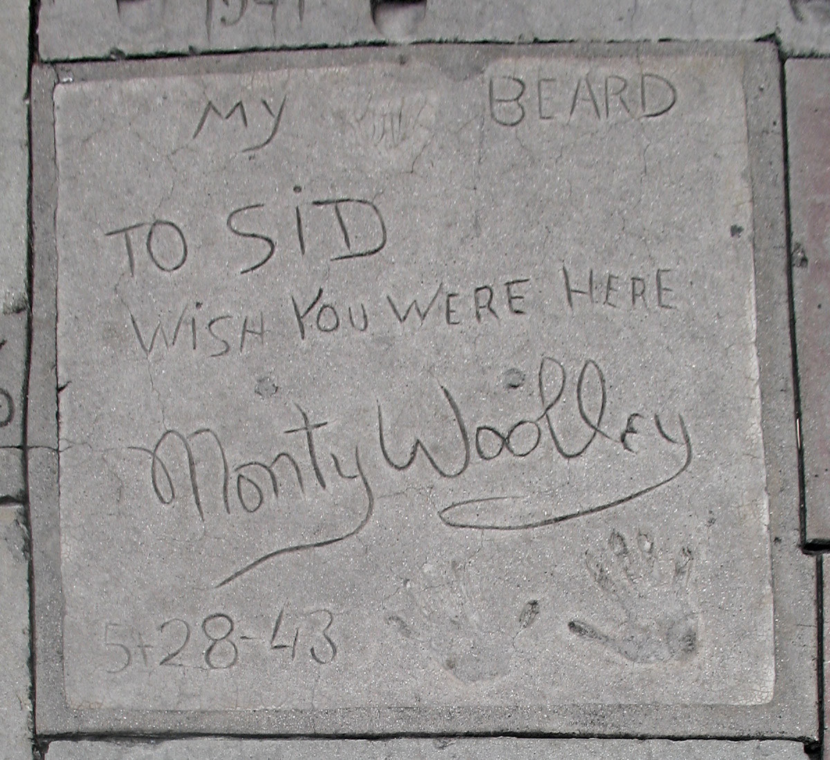 Monty Woolley and Jimmy Durante's handprintsignature at Grauman's Chinese Theatre - to be cropped and perspective corrected for Monty Woolley's